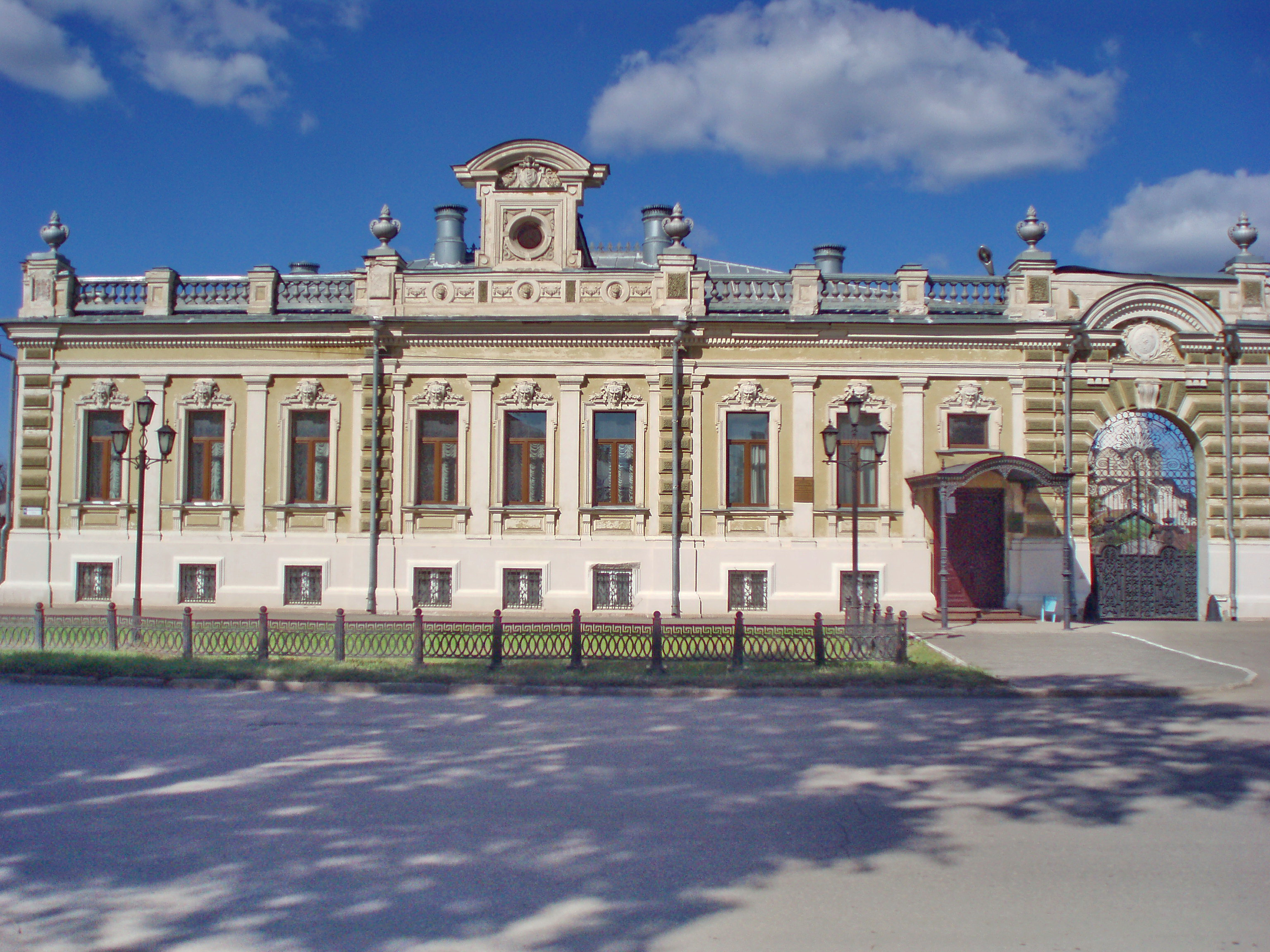 ancient building near Bereg Hotel